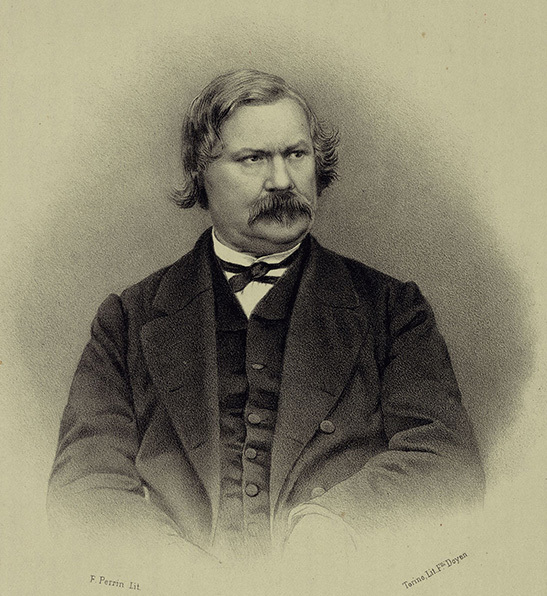 Portrait of Errico Petrella, composer (1813-1877), before 1885.